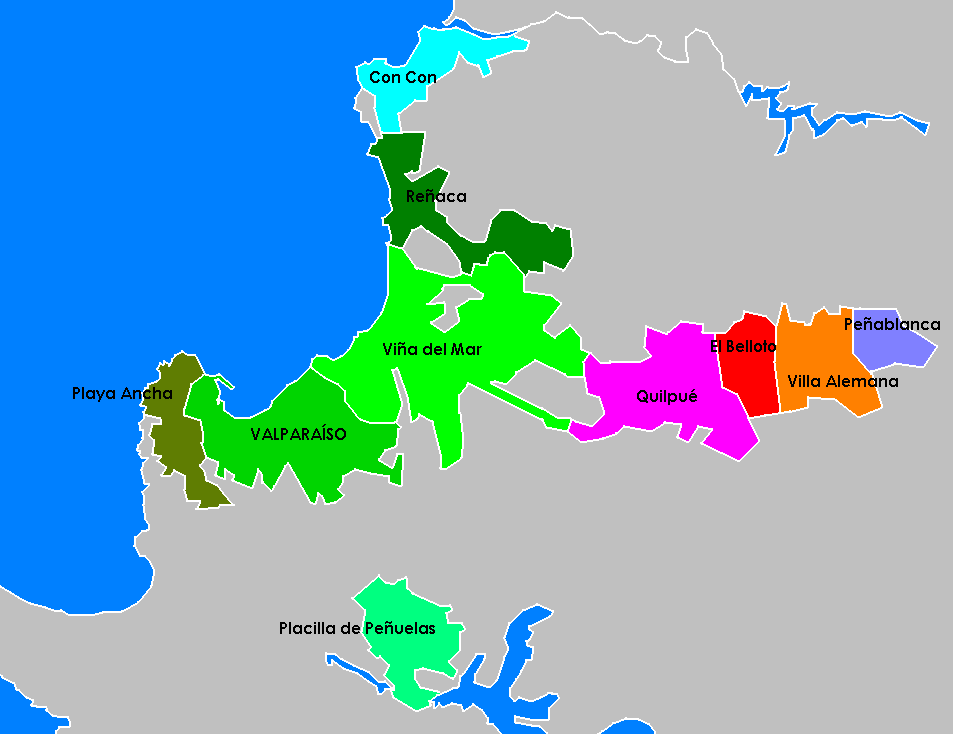 Map of the coastal metropolitan area communities in the Valparaíso Region of Chile.